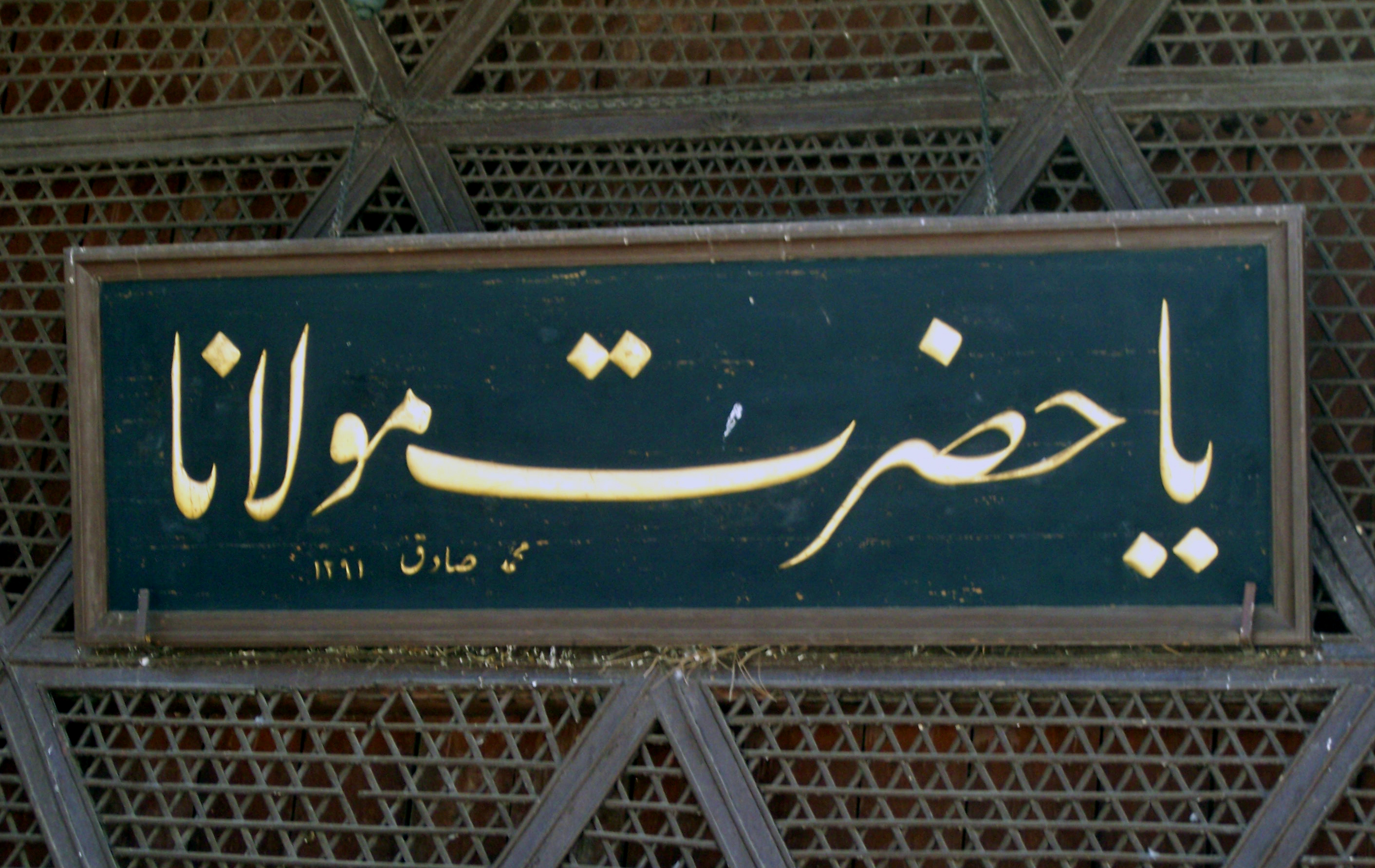 Ya Hazrate Mawlana (roughly: "O Great Mawlana"). A calligraphy piece found at the top of the entry to Mevlâna Museum (tr: Mevlana Müzesi) in Konya/Turkey. Mawlana Museum was once the dergâh (i.e. Khanqah) of Mawlana (Mevlana) Jalal ad-Din Muhammad Rumi (Celaleddin Muhammed Rumî).